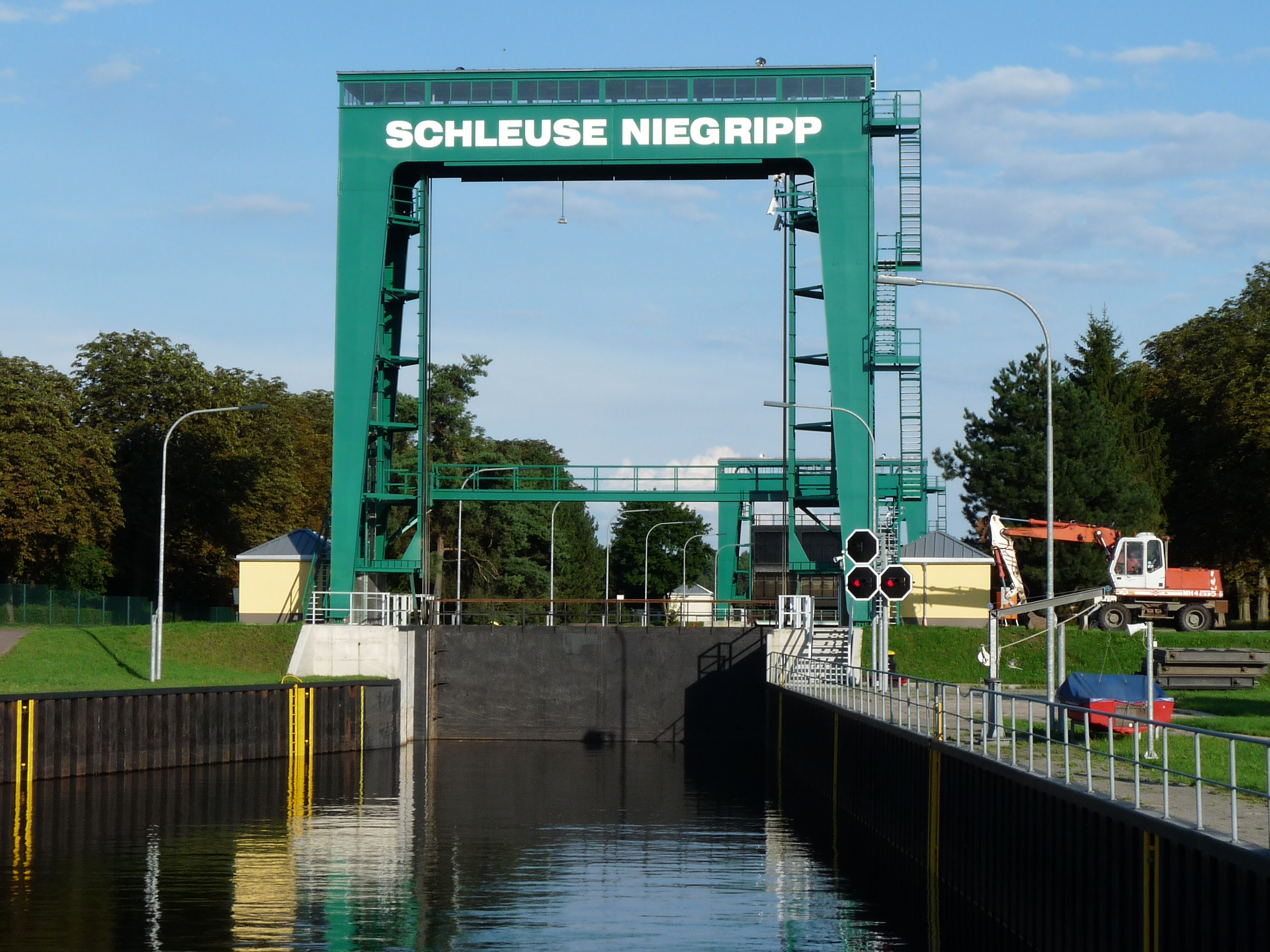 The lock named Schleuse Niegripp in the man made waterway Niegripper Verbindungskanal in Germany